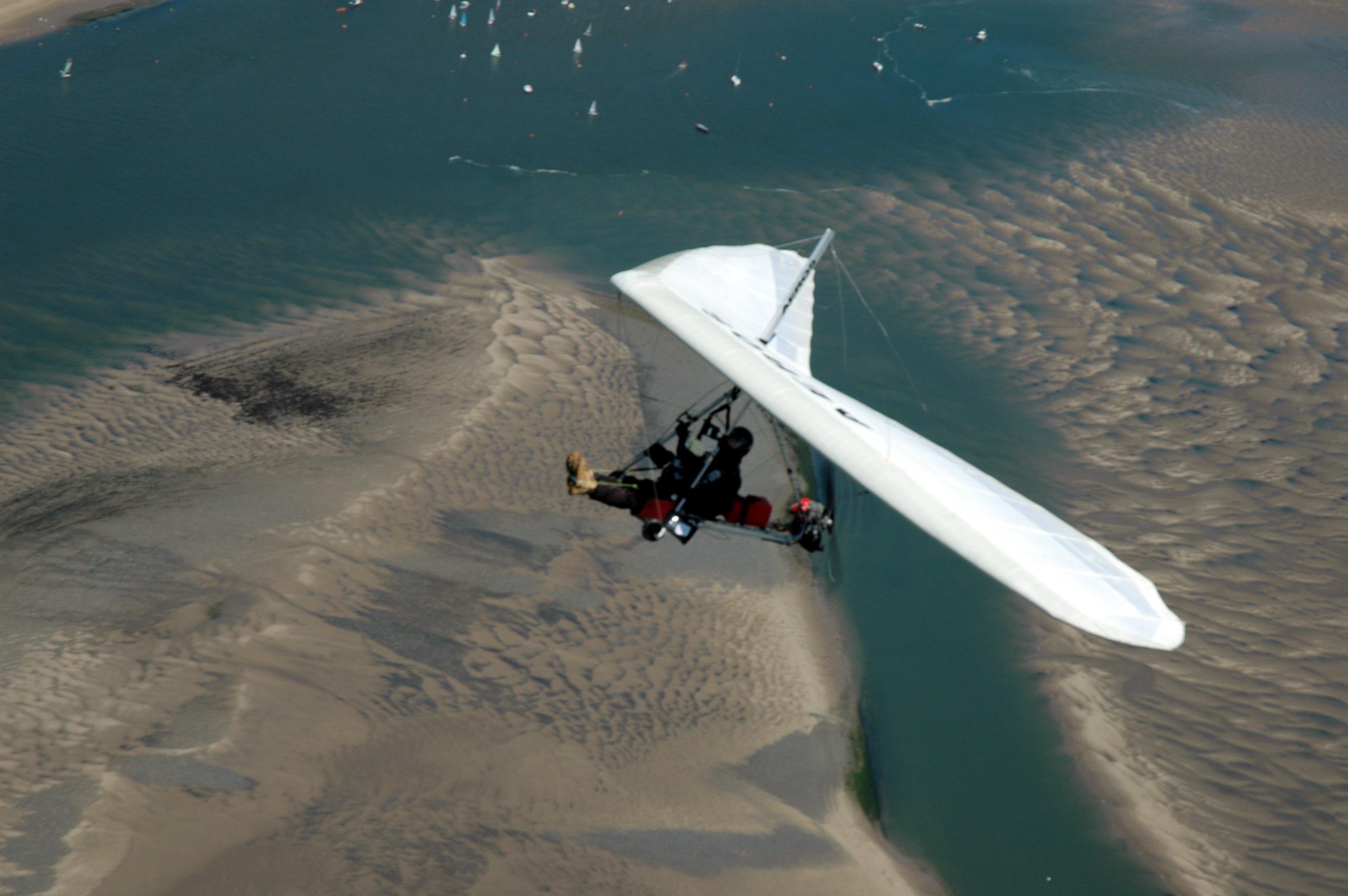 Air-to air-photo of Patrick Laverty on May 24, 2009 over Talybont, Ceredigion, Wales, U.K. On this day, Laverty broke the foot-launched powered hang glider (FLPHG) altitude world record by flying to an altitude of 5,348m above sea level. The hang glider was an Aeros Discus 15 and the harness was equipped with a carburated 29hp ROS 125 engine.